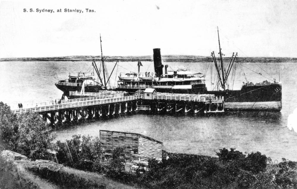 Sydney (ship).